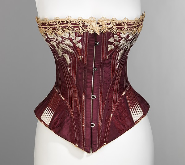 Known as the 'Bon Ton', this corset was awarded the bronze medal at the Centennial Exposition. The fine embroidery representing traditional motifs of oak leaves and wheat ears symbolize well-being and prosperity. During this period, a woman's dress was very representative of her class and so having an embellished undergarment with these motifs would be most fitting.